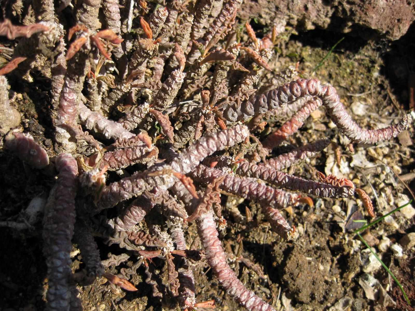 Photographed at Huntington Gardens (Los Angeles, California) in March